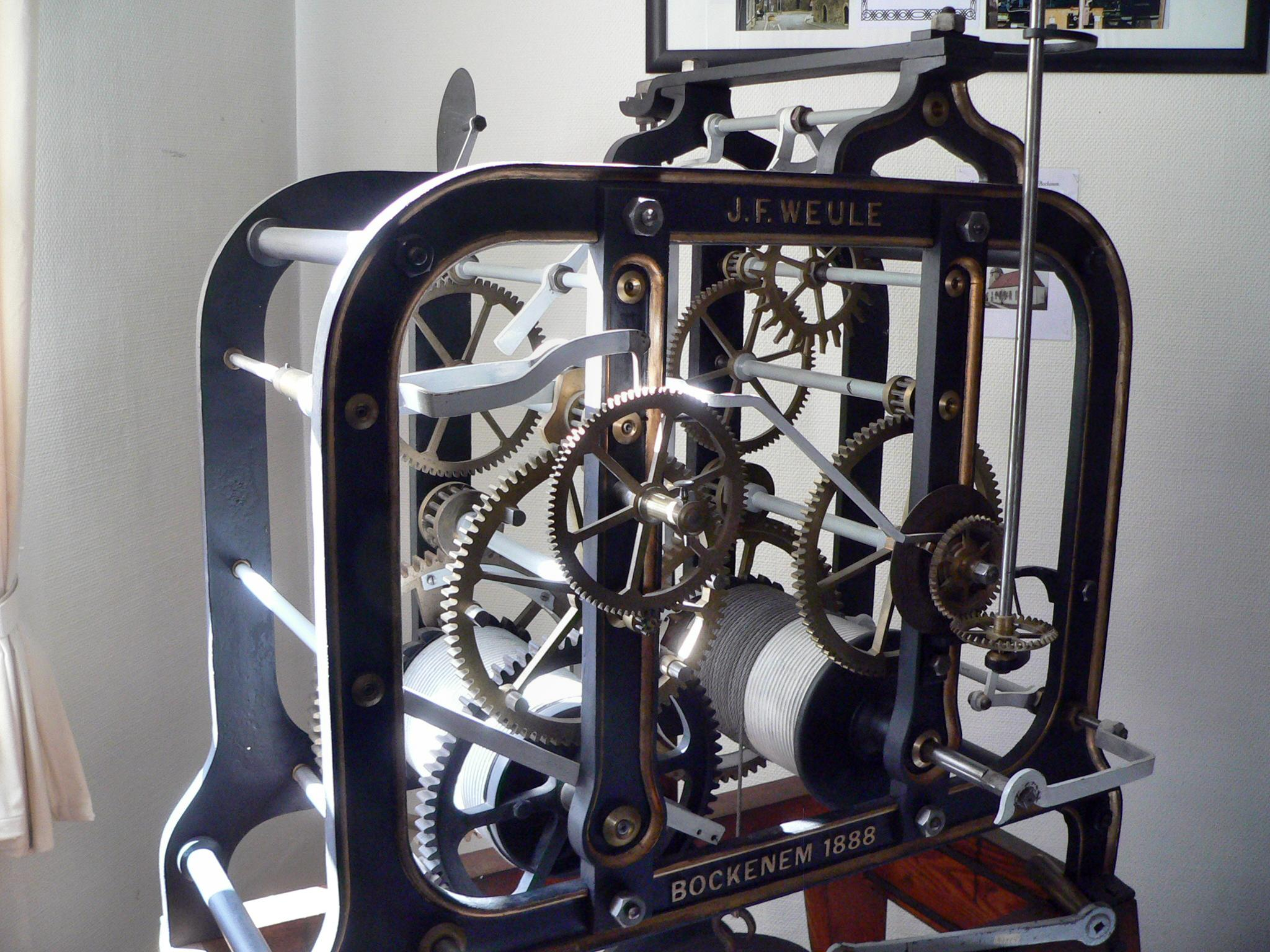 Turret clock of the company J. F. Weule, Bockenem, built 1888 in the museum Turmuhrenmuseum Bockenem, Germany